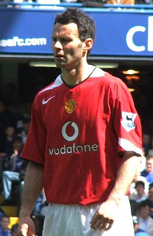 Welsh footballer Ryan Giggs